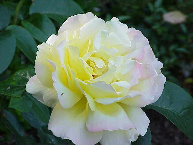 Species: Rosa sp. Family: Rosaceae Cultivar: Gloria Dei, Meilland 1945 Image No. 123